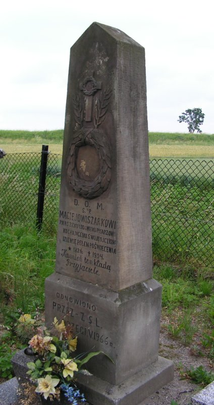 Gravestone of Maciej Szarek, Grabie, powiat wielicki, Poland